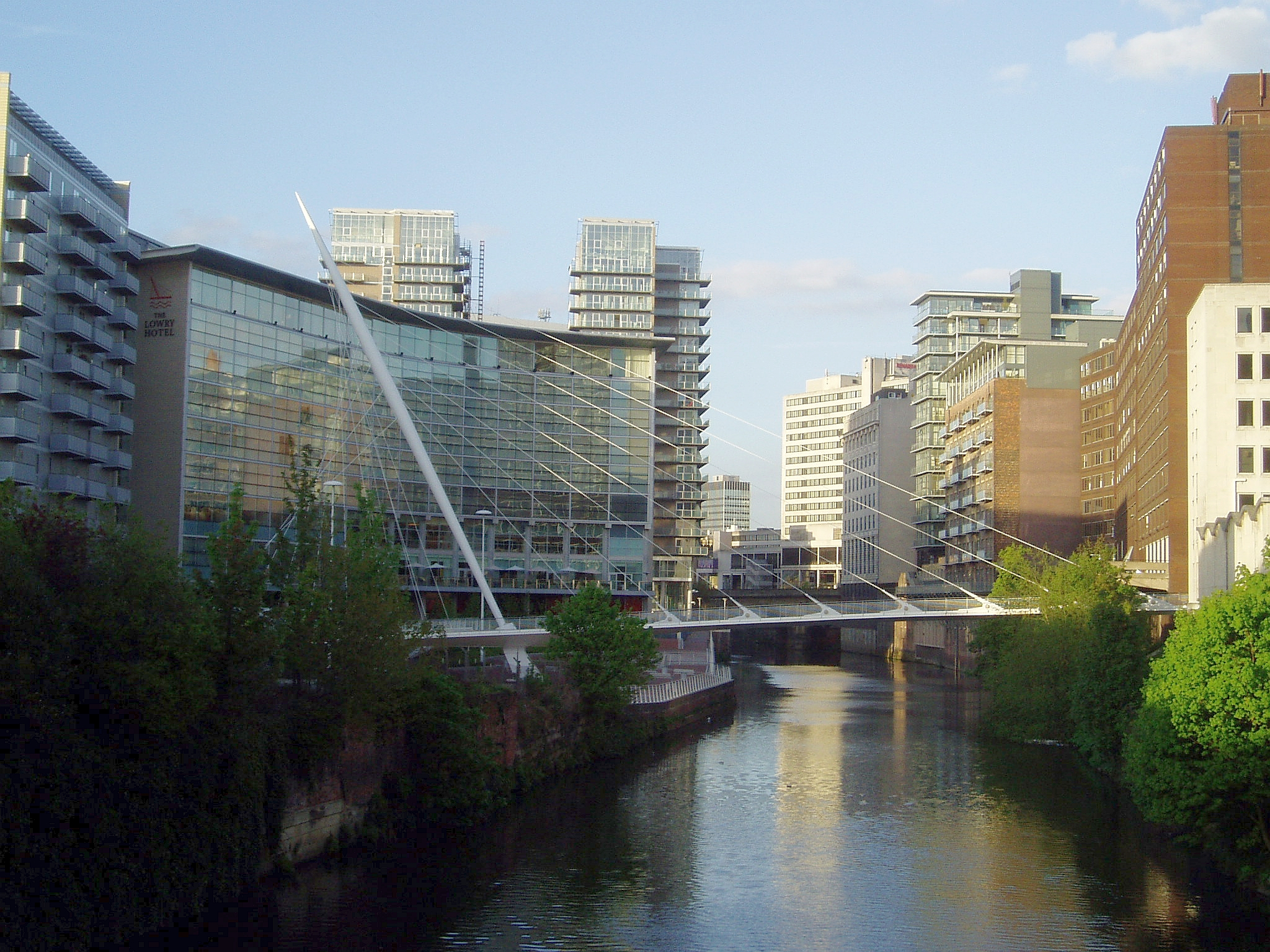 Trinnity Bridge, Manchester, England. Spanning the canal and bridging the gap between Manchester and Salford. Designed by Santiago Calatrava.Trinity Bridge